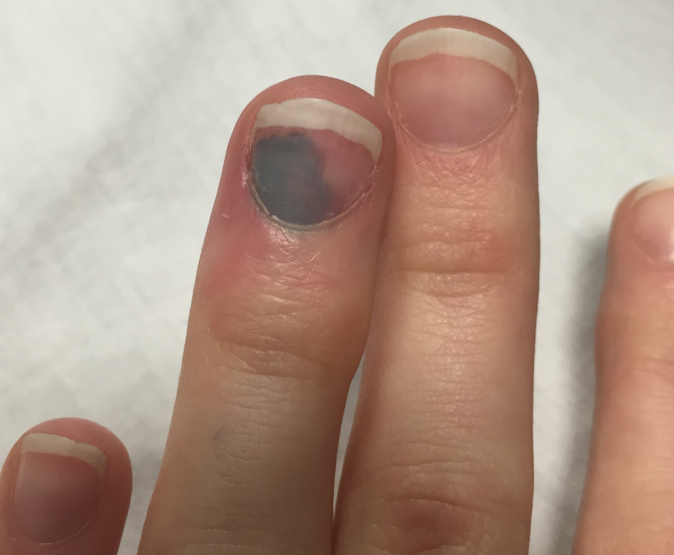 This is a subungal hematoma of the finger.